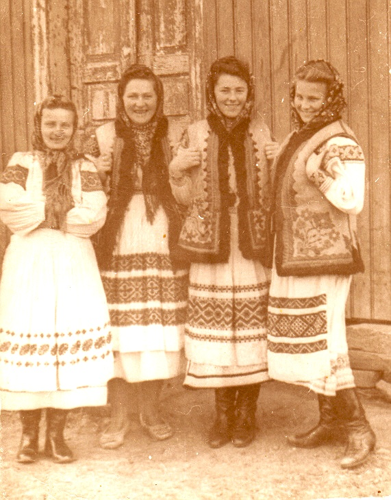 Womens in Boyko costumes from the Khashchovania village (the forties of the 20th century)